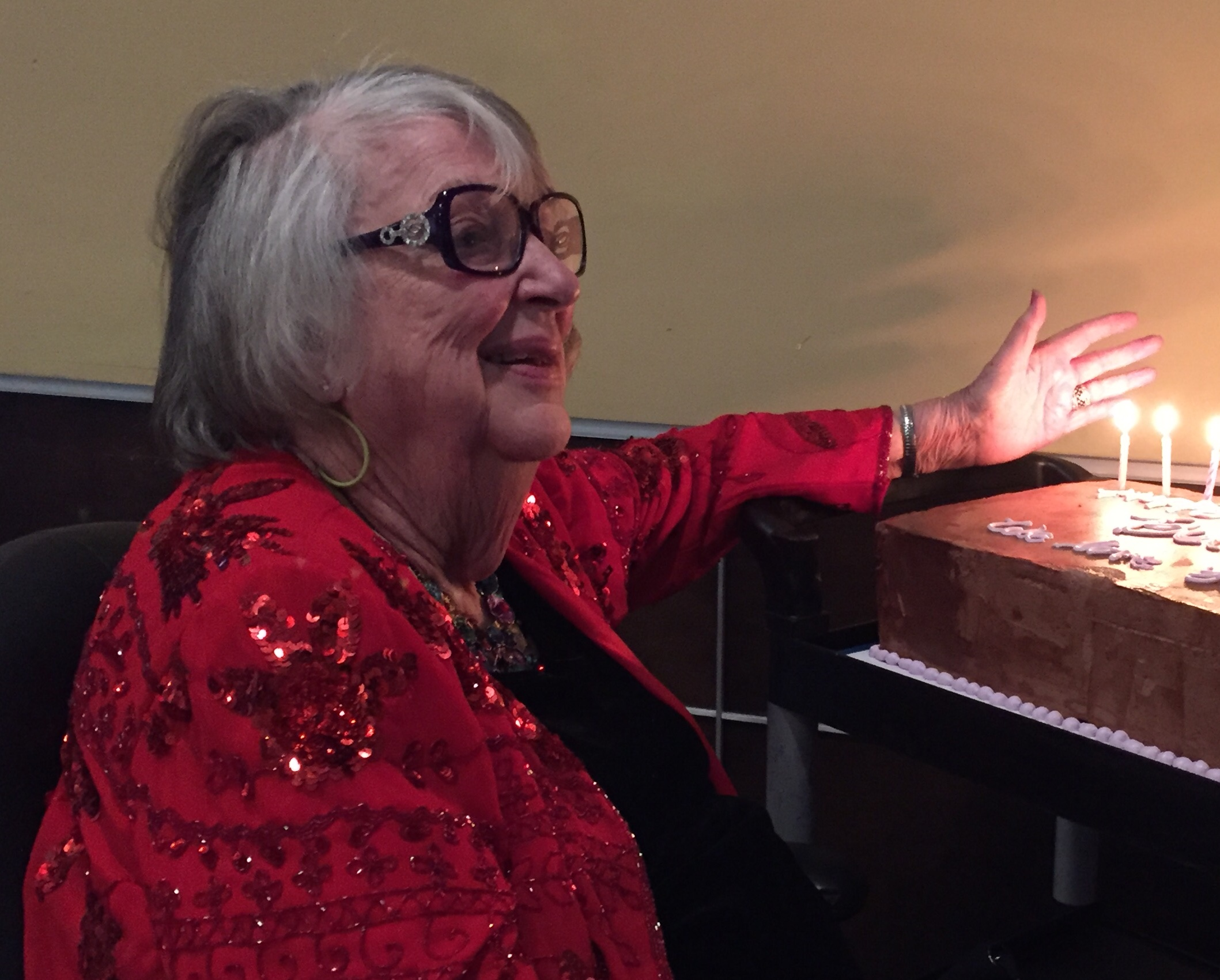 Beth Ashley at her 90th birthday party